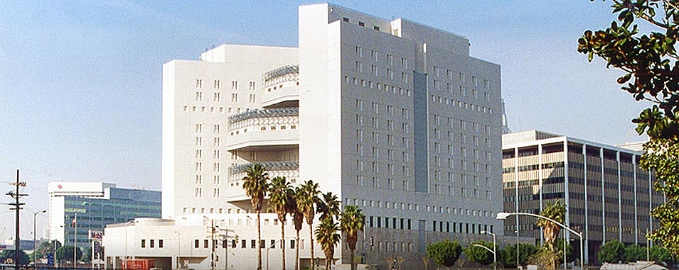 Metropolitan Detention Center, Los Angeles — a jail in Downtown Los Angeles.